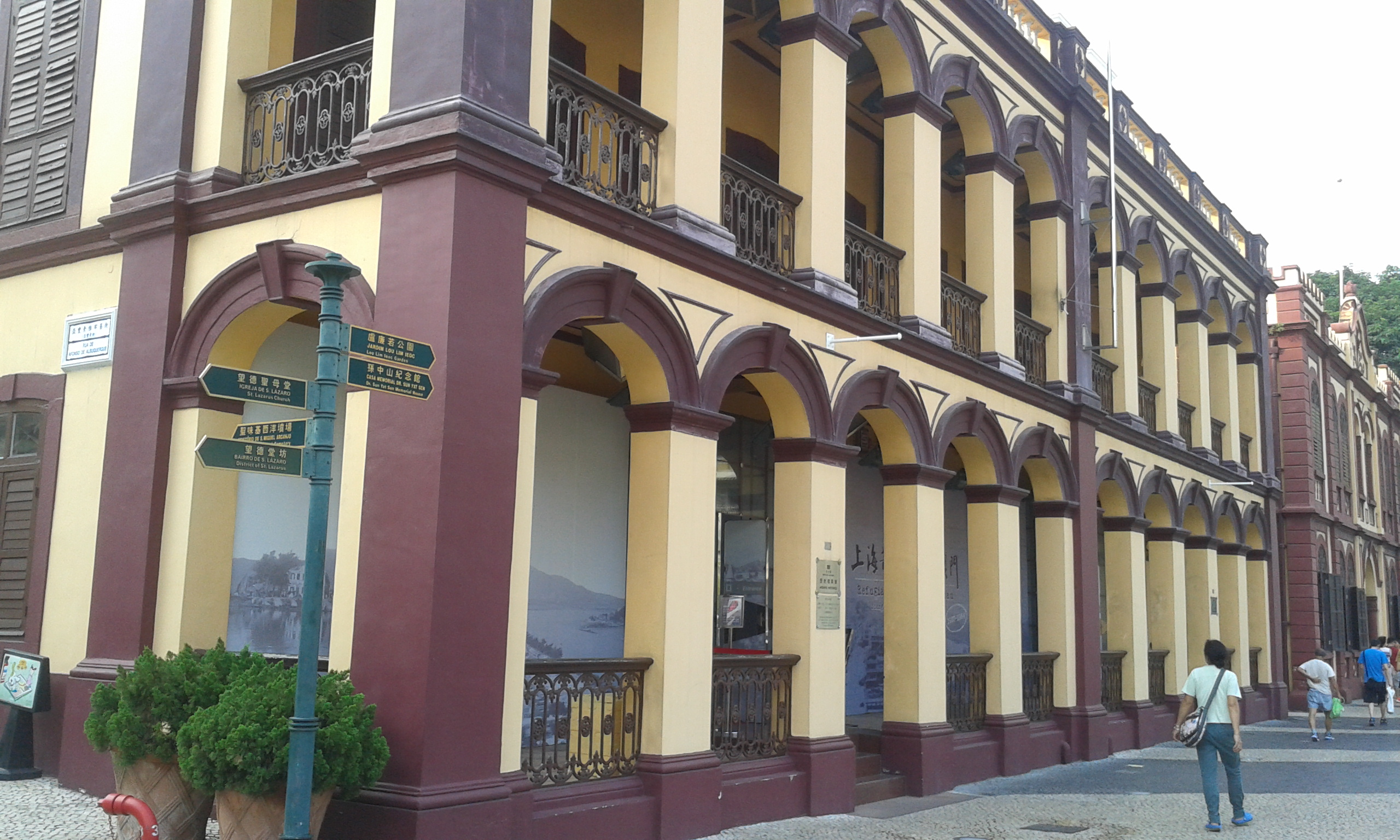 The Historical Archives of Macao